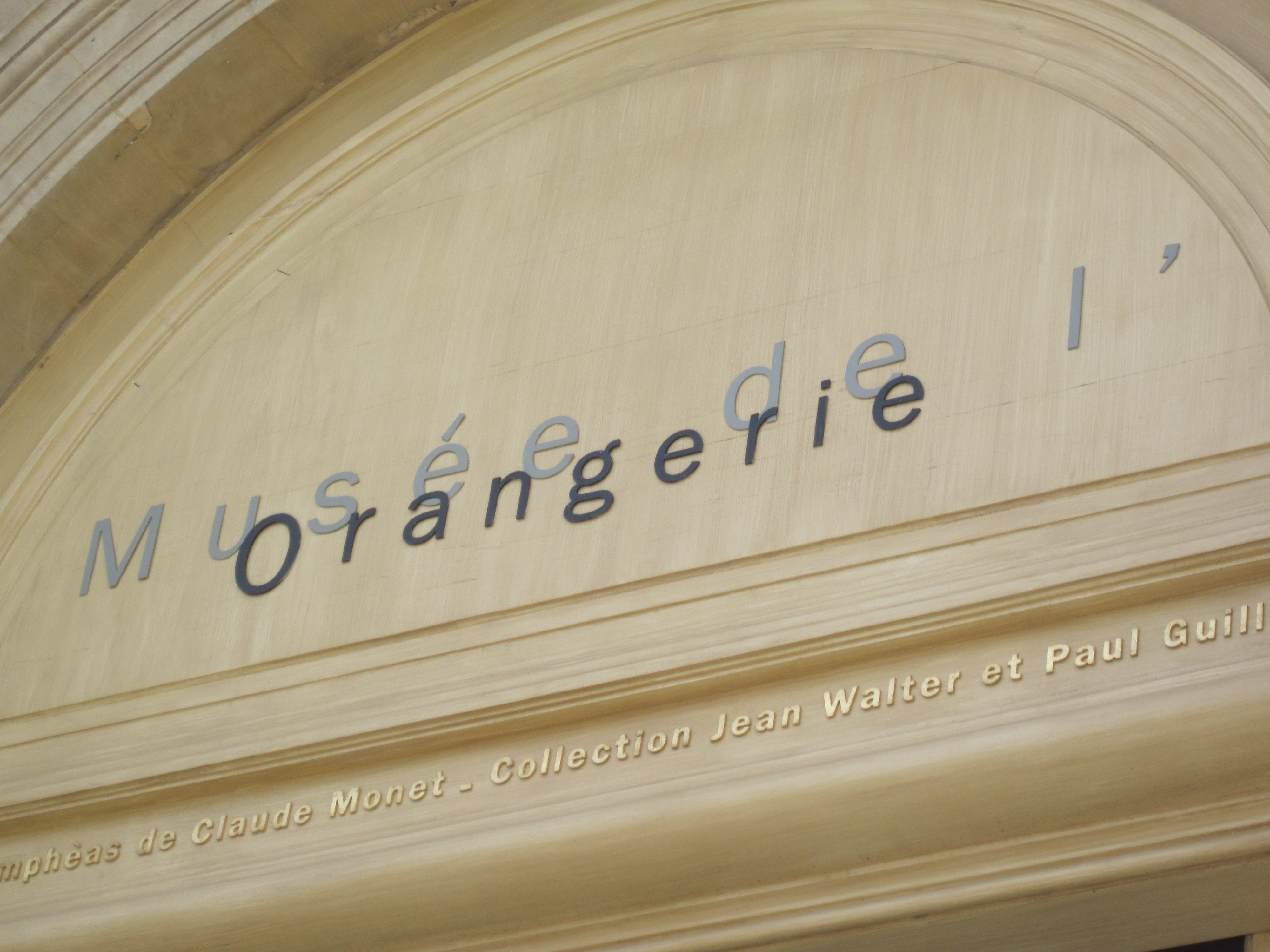 Taken during a trip to Paris